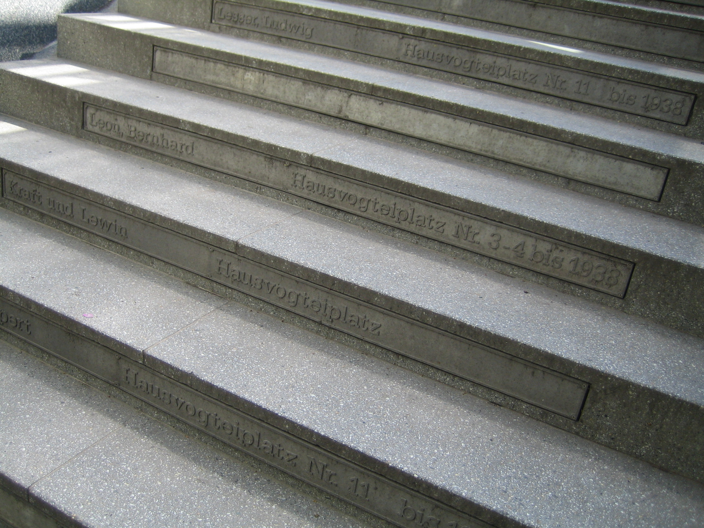 Memorial to remember maltreated jewish residents. Berlin, Hausvogteiplatz